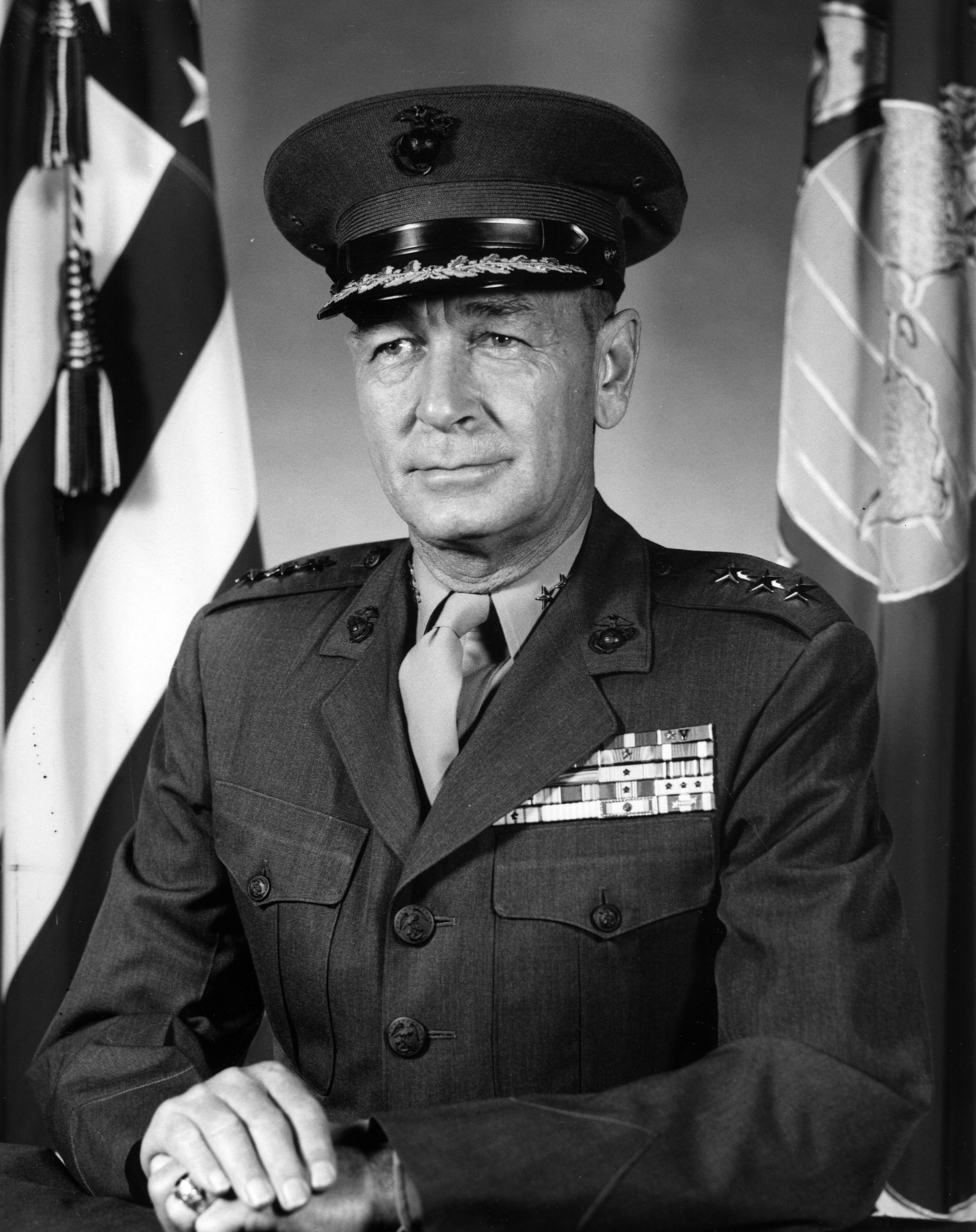 Richard Garfield Weede (September 26, 1911 - October 22, 1985) was a highly decorated officer of the United States Marine Corps with the rank of Lieutenant General. He served in World War II, Korea and during the early phase of Vietnam War and completed his carreer as Commanding general of Fleet Marine Force, Atlantic.